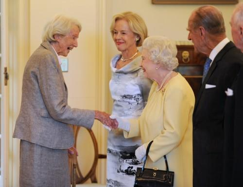 Catherine Hamlin is presented to Quentin Bryce (Governor-General of Australia) and Queen Elizabeth II, alongside Prince Philip, Duke of Edinburgh and Michael Bryce, at Government House, Canberra.